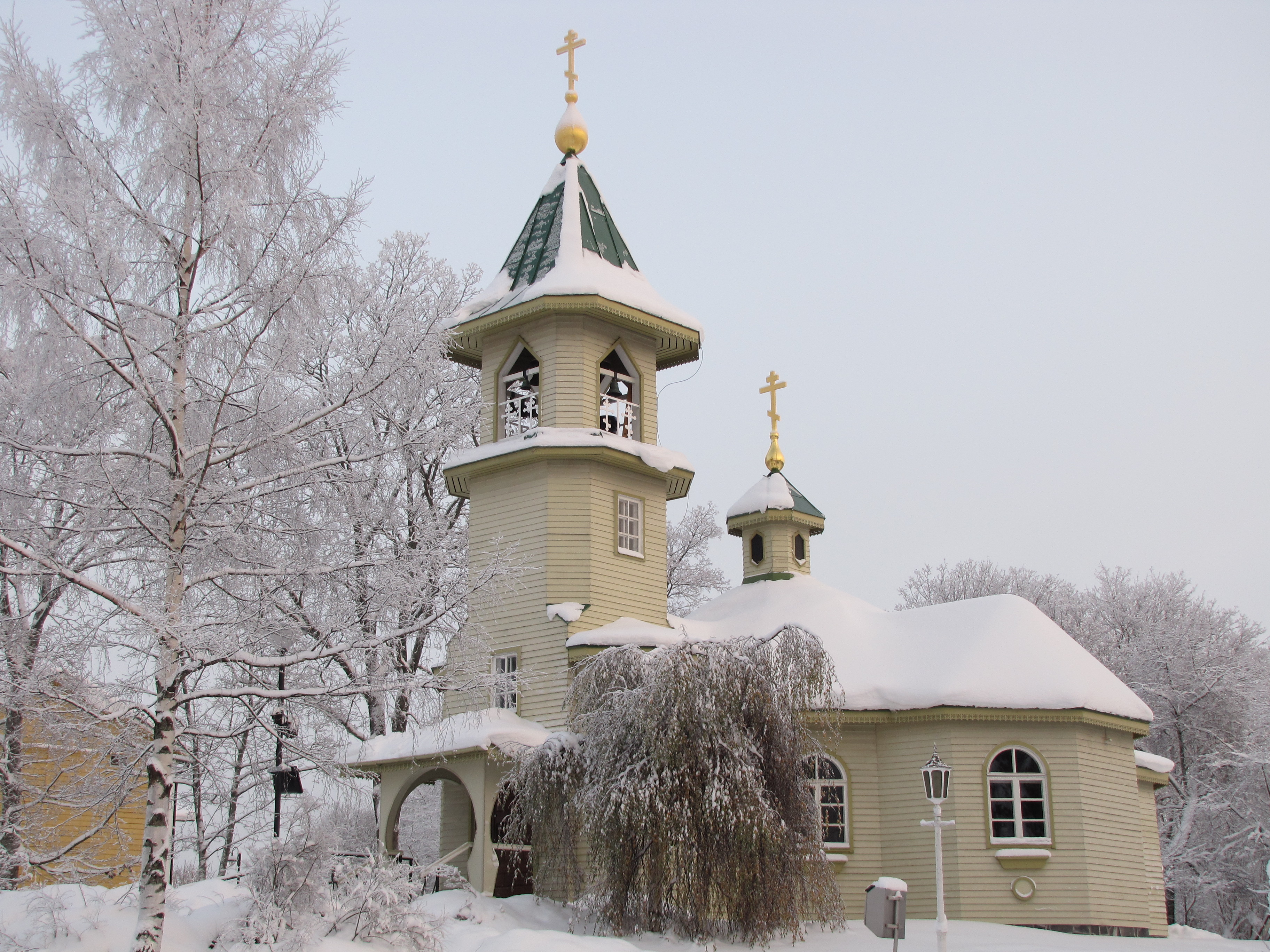 Saint Nikolaos orthodox church in Imatra.